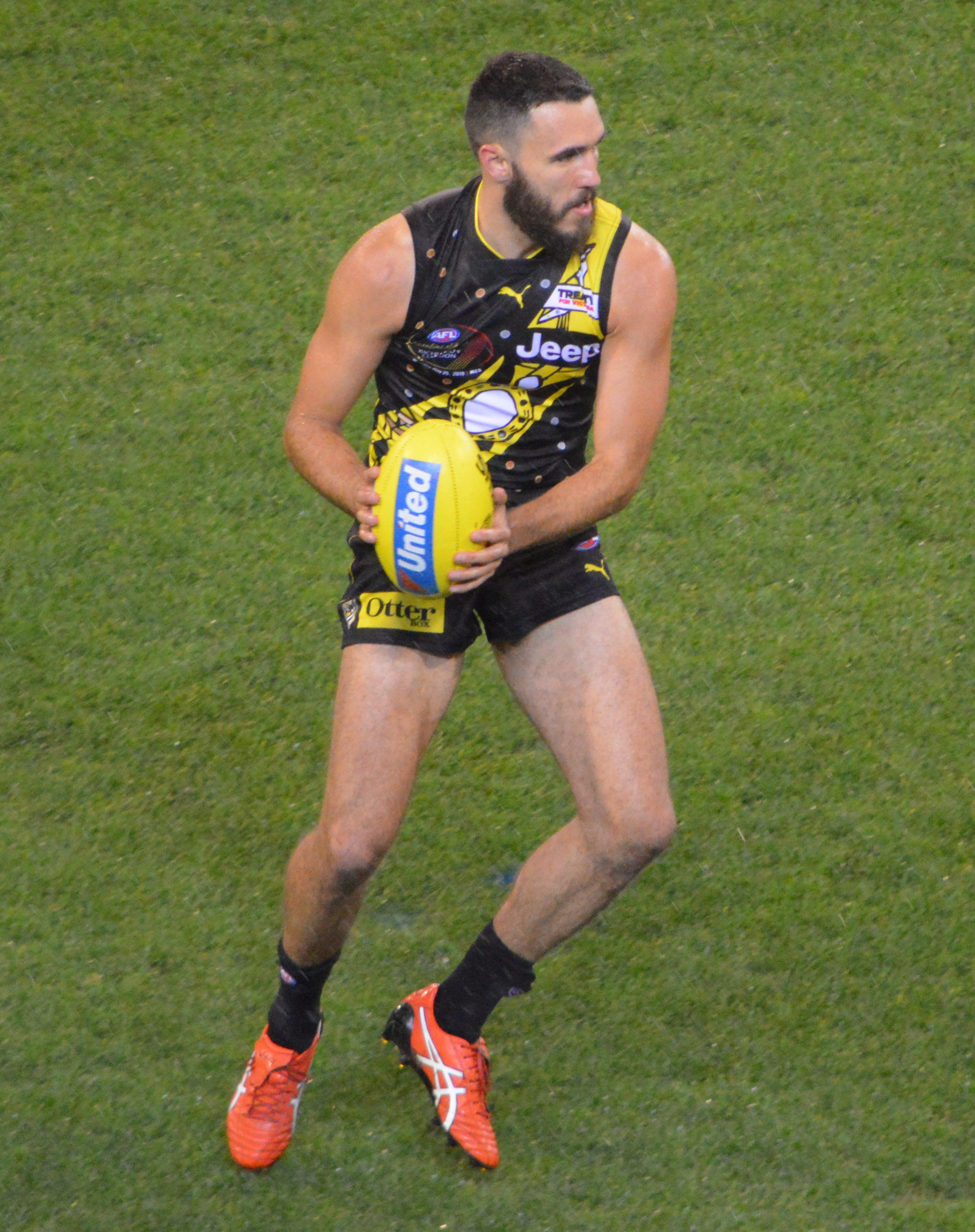 Shane Edwards with Richmond in the round 10 Dreamtime at the 'G AFL match against Essendon at the MCG on 25 May 2019.